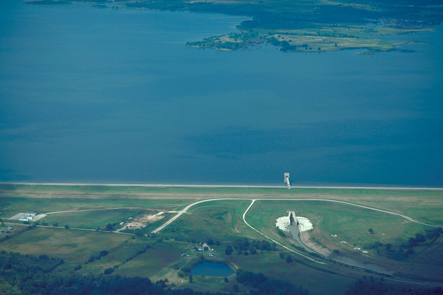 Aerial view of Ray Roberts Lake and Dam on the Elm Fork in Denton County, Texas, USA. This dam is over 2 miles (3.2 km) long and this photograph does not show the entire dam. The lake also backs up into Cooke and Grayson Counties. The U.S. Army Corps of Engineers constructed the dam in 1987 to provide water supply for the cities of Denton and Dallas. View is to the north. Coordinates: 33°21′16.38″N 97°2′58.01″W / 33.35455°N 97.0494472°W